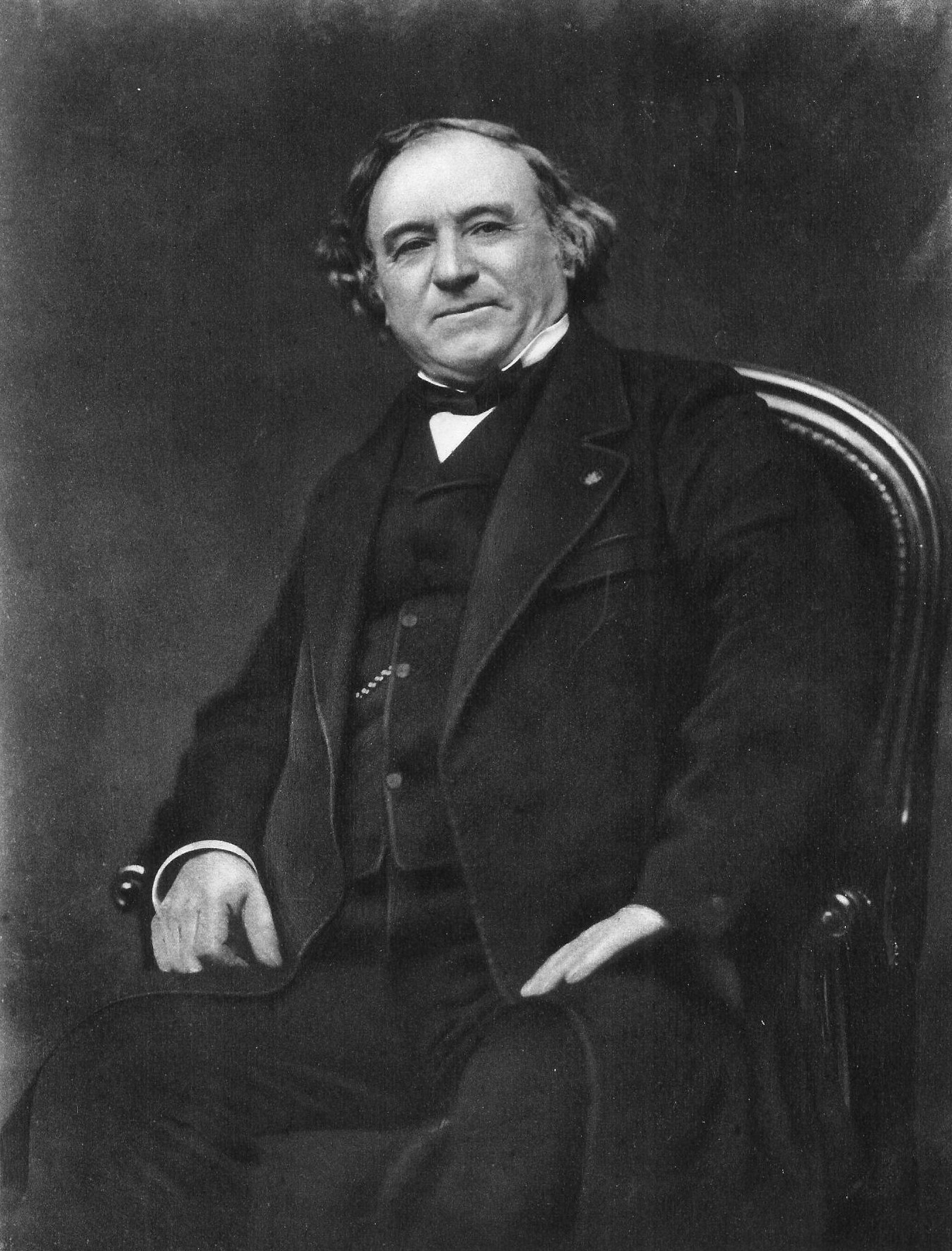 Portrait de Jean-Baptiste Dumas (1800-1884), chimiste et homme politique français.